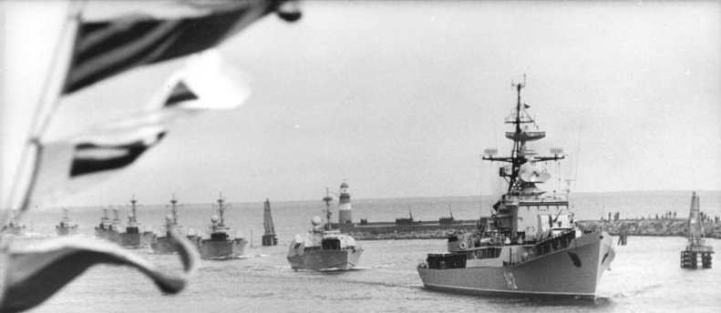 Ships of the GDRs navy parade in Rostock harbor during the celebrations in honor of the 25th birthday of the GDR in 1974. A soviet made Riga-class frigate named "Karl Marx" is followed by 4 OSA-class missileboats and 4 torpedoboats. Original caption reads: Rostock: 25th anniversary-parade of the NVA. Belonging to the fleet of the peoples navy of the GDR is coastdefense-ship "Karl Marx" - decorated with the order of merit in bronze. In the background four missileboats